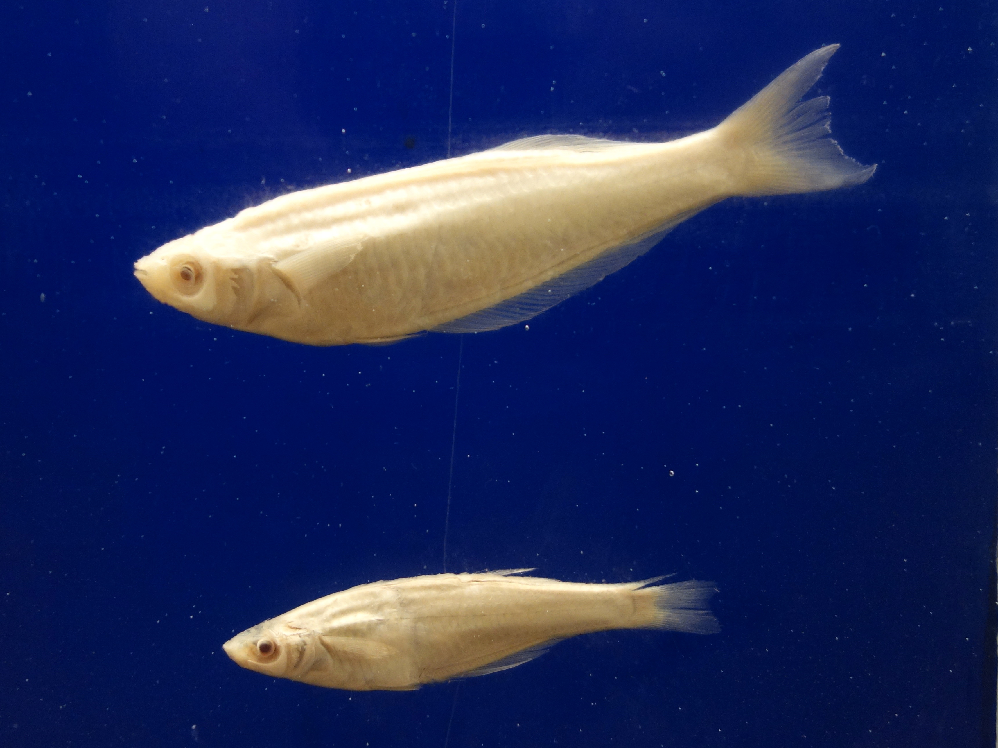 Exhibit in the Royal Museum for Central Africa, Tervuren, Belgium.